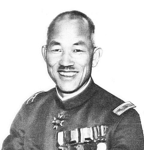 Kesago Nakajima